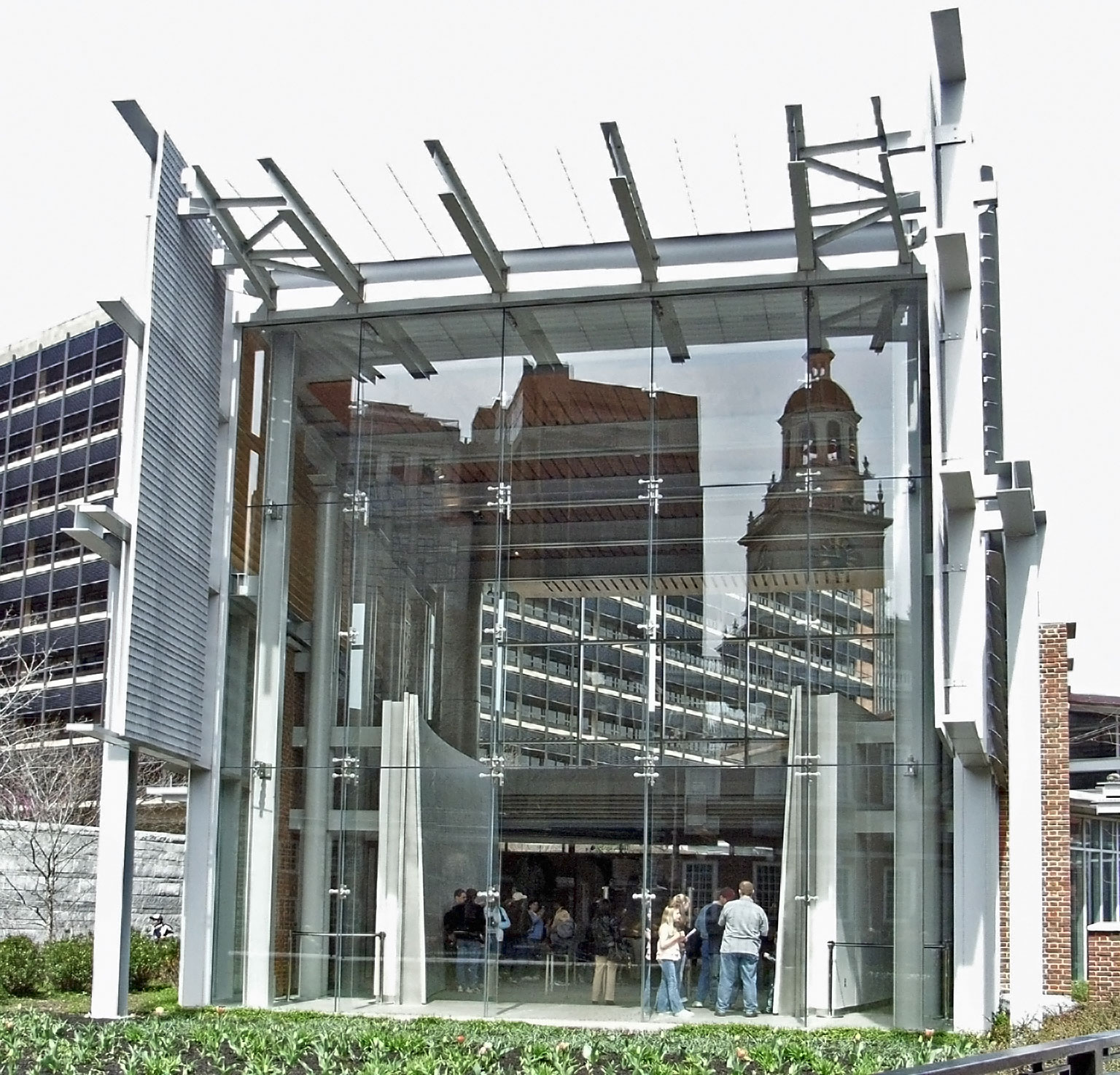 Exterior view of the Liberty Bell Pavilion, with the Liberty Bell at center. The pavilion was designed by archiect Bernard Cywinski. A reflection of Independence Hall can be seen in the glass.